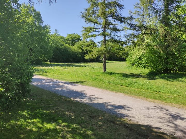 Am Krempelhuberplatz, München